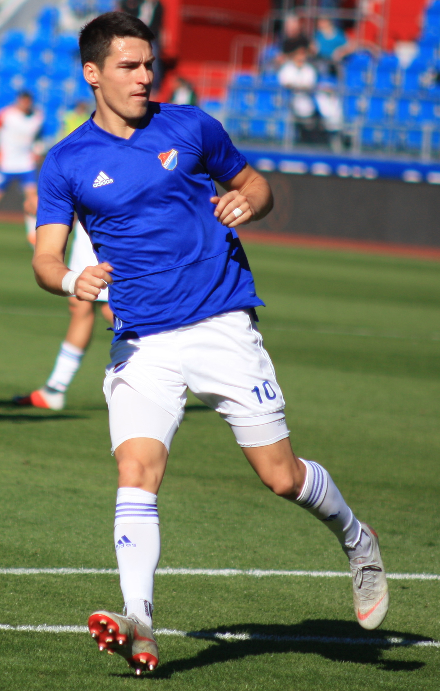 Robert Hrubý At Czech First League (Fortuna Liga) match FC Baník Ostrava-SK Slavia Praha played on 30. 9. 2018